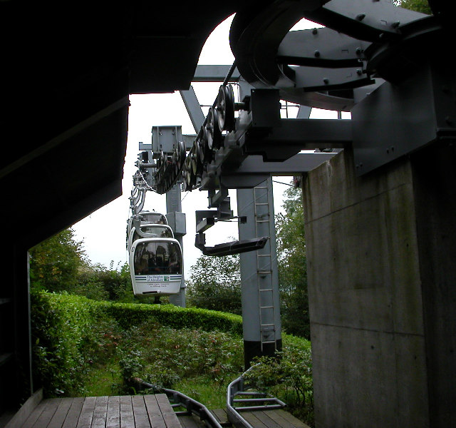 Heights of Abraham Cable Car. Situated in Matlock Bath. Opened in 1984 it takes passengers up to the entrances of former lead mines.